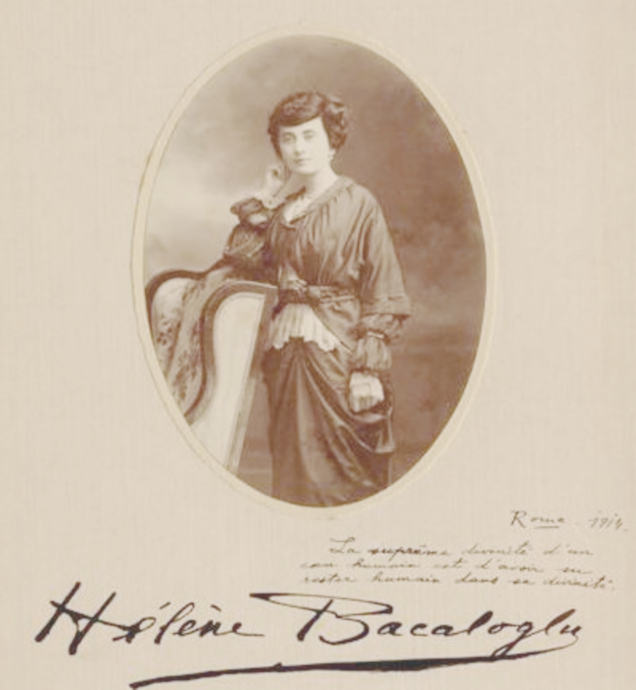 Elena Bacaloglu, Romanian journalist and fascist supporter, photographed in Rome, 1914 (with autograph)